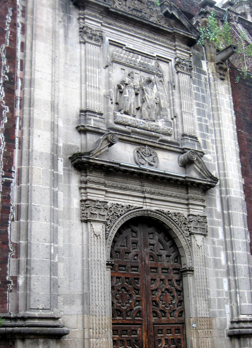 Side Entrance to Church of Santo Domingo in Mexico City with stone figures of Saints Dominic and Francis holding up the Church of Letran